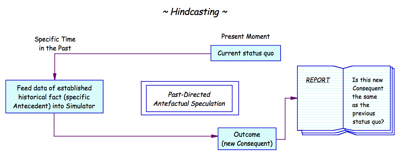 Taken from page 145 of Yeates, L.B., Thought Experimentation: A Cognitive Approach, Graduate Diploma in Arts (By Research) dissertation, University of New South Wales, 2004.